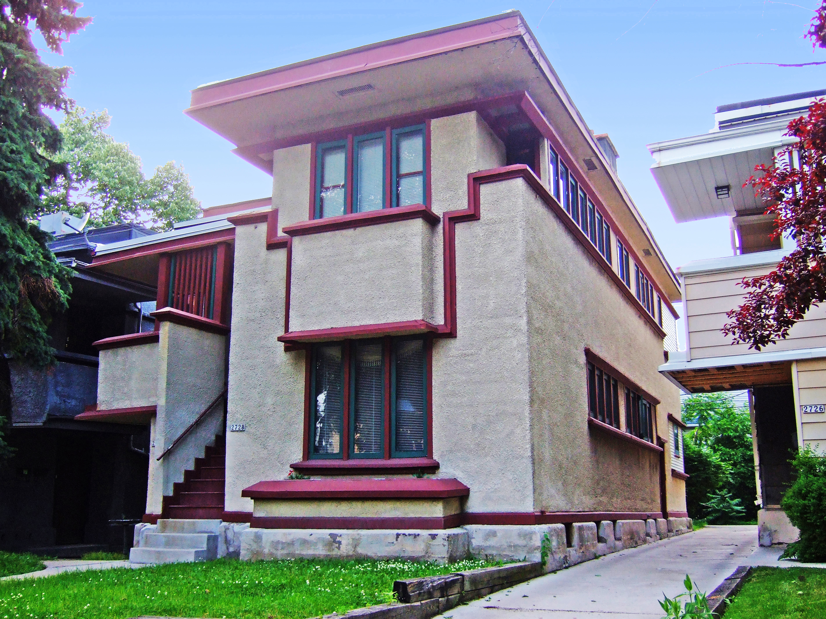 One of the three duplex apartment buildings - the type referred to as either a "Model 7a", "Model C" or "Model F" duplex - located in the Burnham Street Historic Districton on West Burnham Street in Milwaukee, Wisconsin. Designed by Frank Lloyd Wright, it was built in 1914-15.